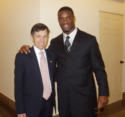 Gary Baxter - March 30, 2006 Congressman Dennis Kucinich met with Cleveland Browns cornerback Gary Baxter to discuss childhood obesity, the victims of Hurricane Katrina, and giving back to the community.